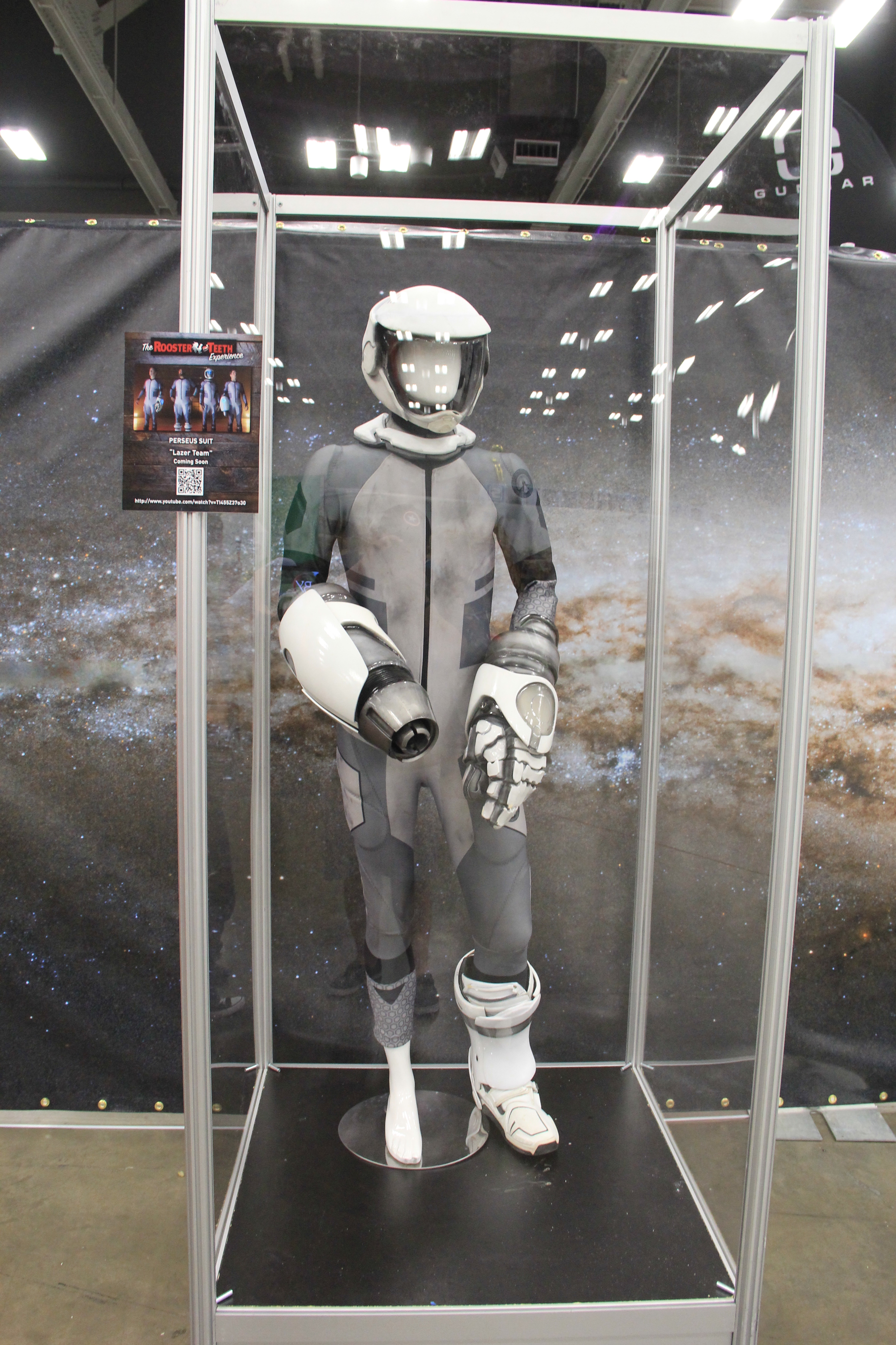 The suit of power from the movie Lazer Team. Taken at RTX 2015.